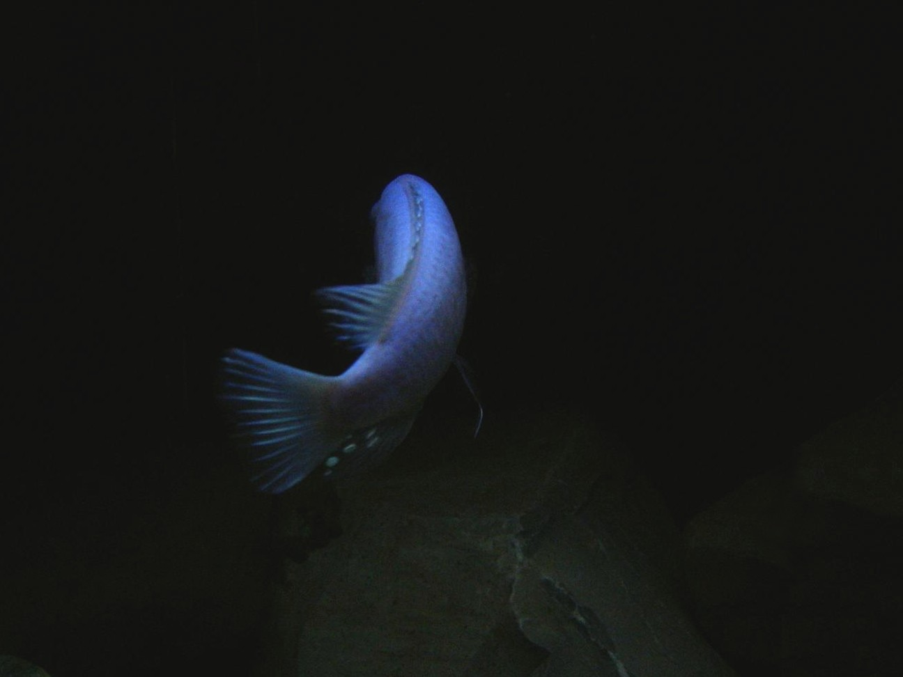 Maylandia callainos We all want to swim into the shadows, sometimes. View large to get the full effect